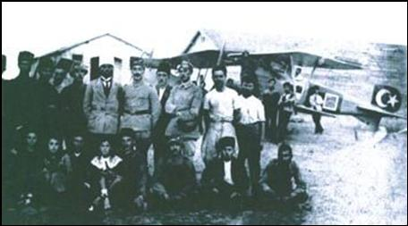 Ahmet Al at Konya Flight Station during the Turkish War of Independence